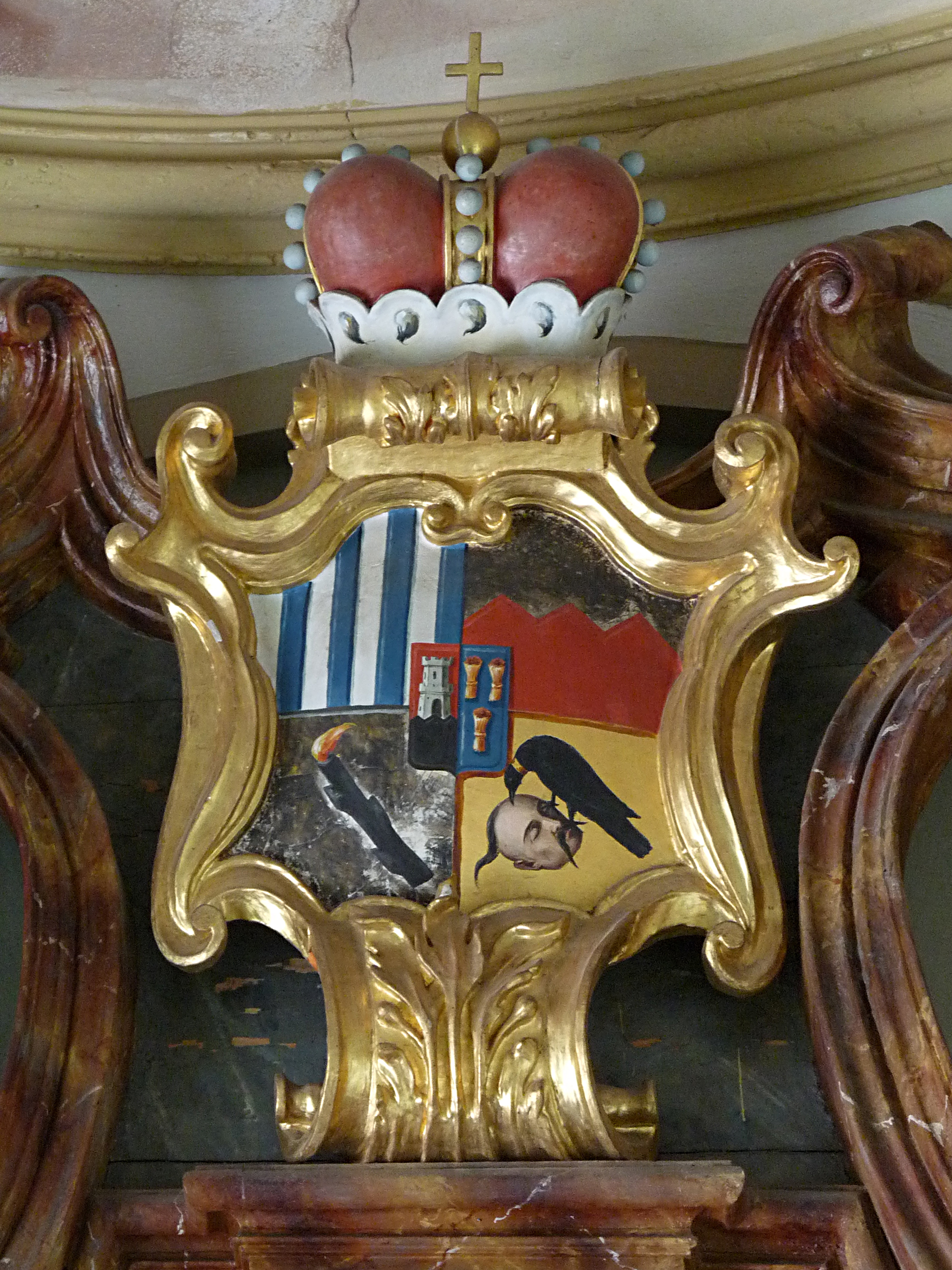 Schwarzenberg coat-of-arms of the chapel at Hunting Lodge Ohrada near Hluboká nad Vltavou, Czech Republic